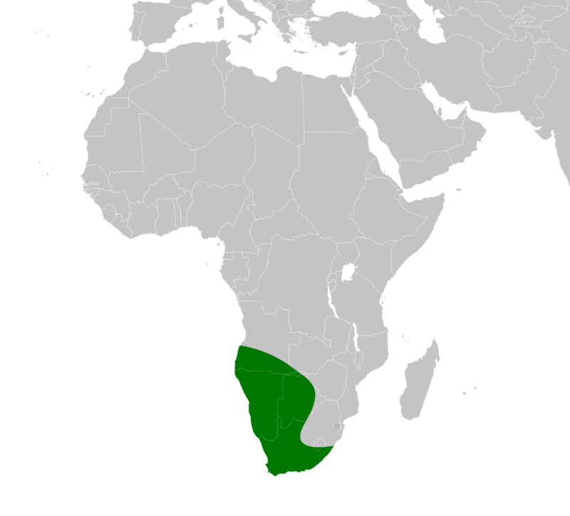 Naja nigricincta distribution range